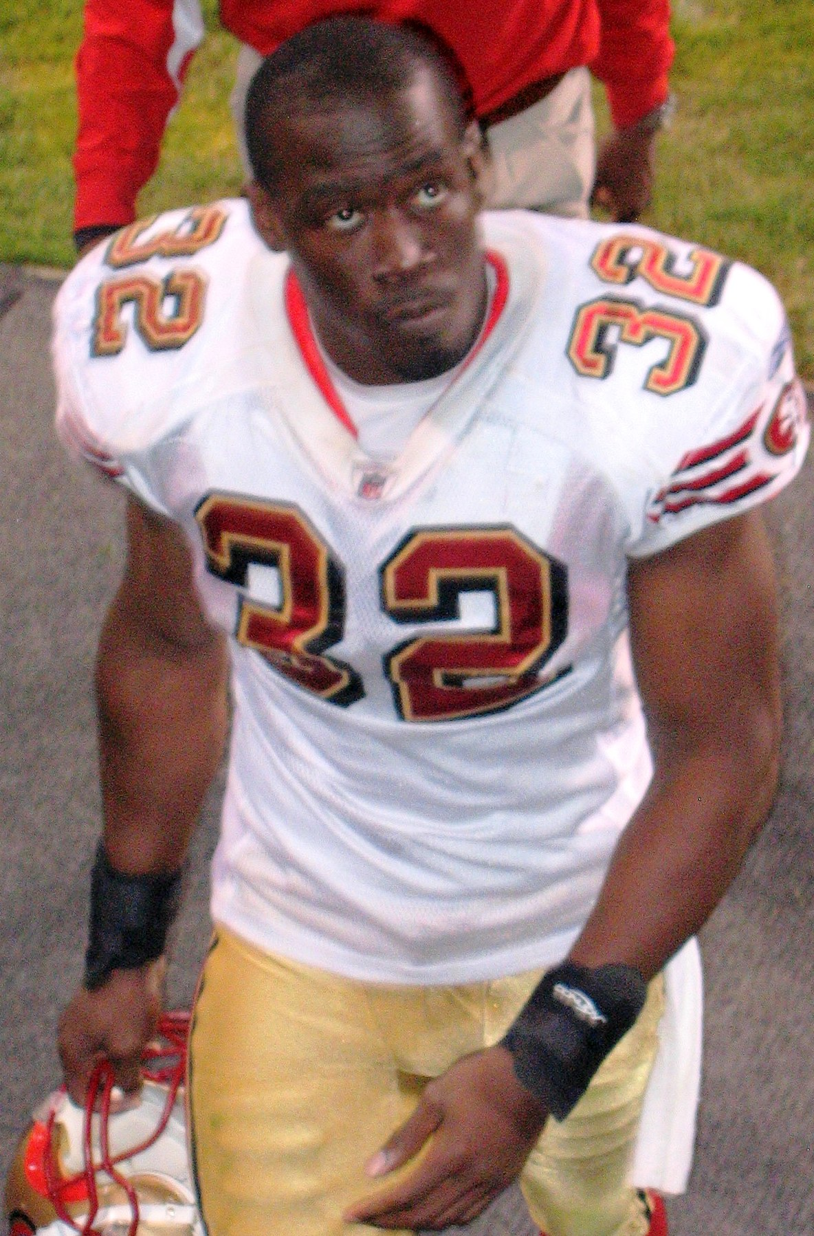 San Francisco 49ers wide receiver and punt returner Michael L. Lewis on the sidelines during the 2008 preseason game against the Chicago Bears